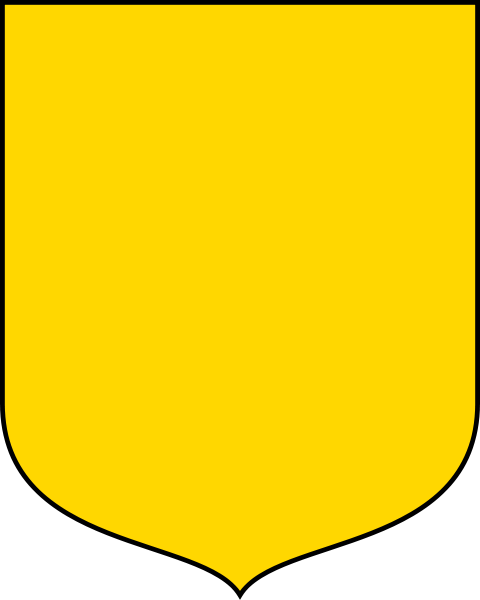 Blank Coat of arms.